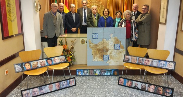 Ateneo de Cádiz